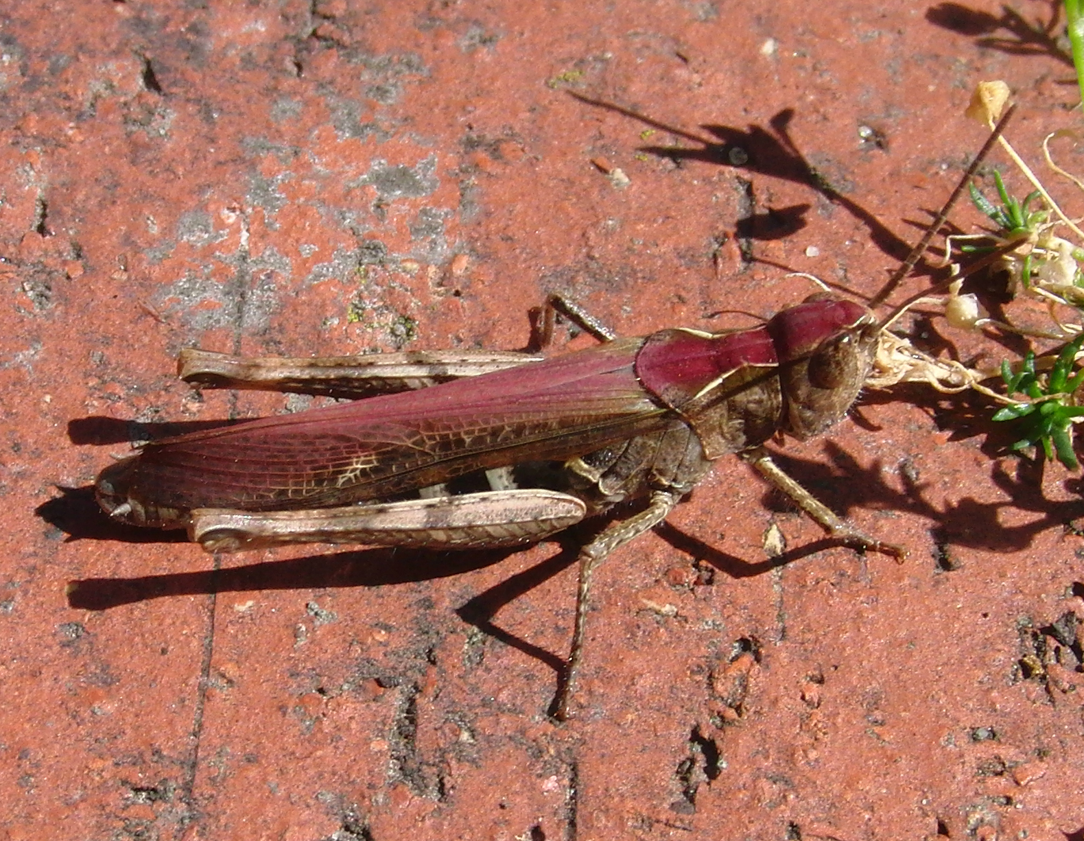 Chorthippus brunneus f., (syn. Glyptopothrus brunneus) with colour adapted to red ground on a terrace in Hamburg, Germany